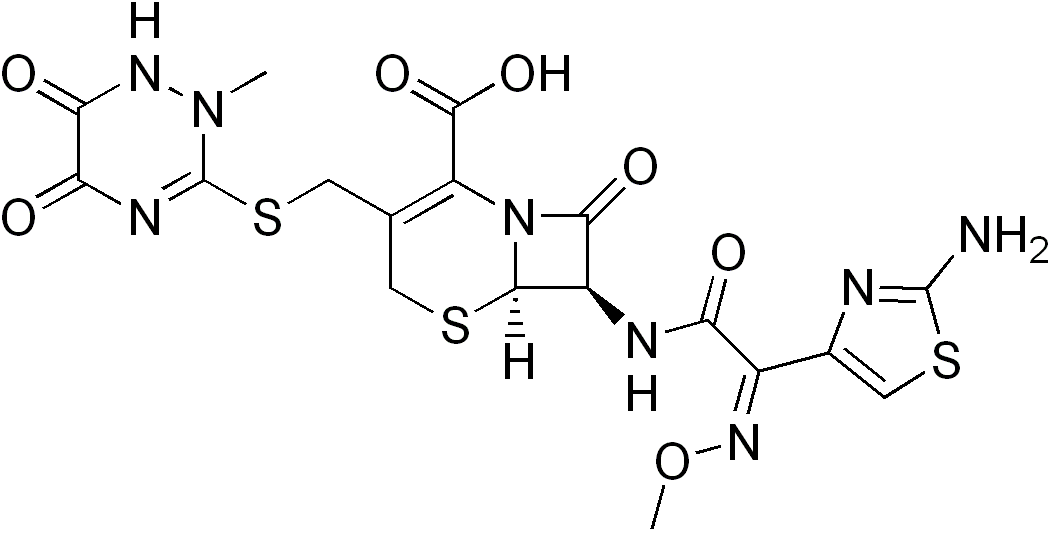 Chemical structure of ceftriaxone, C18H18N8O7S3